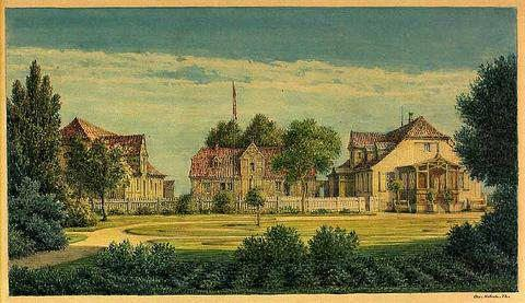 Justitsråd Stephan Nyeland's country house (Nyelands Gård) on Falkonér Allé in Frederiksberg, Denmark